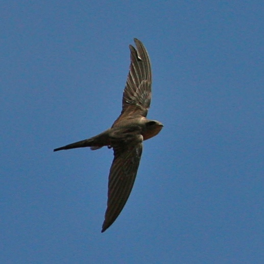 African Palm Swift (Cypsiurus parvus) in flight taken by User:Dawidl in Rivonia (Johannesburg), South Africa.